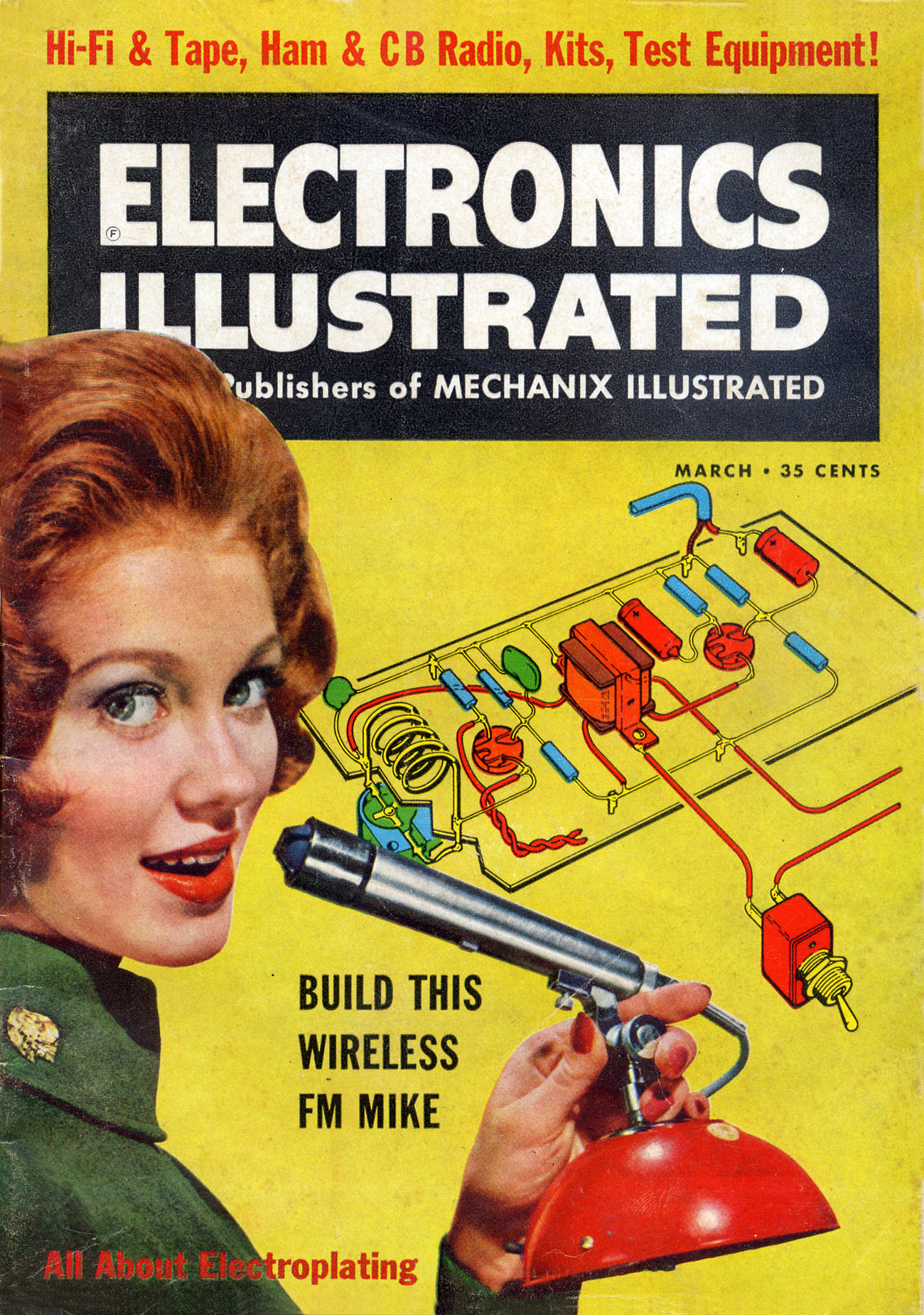 Electronics Illustrated, March 1961, Volume 4 Number 3. Fawcett Publications Inc., Editor: Robert G. Beason. Published from May 1958 to November 1972. The digest size magazine (9.25 by 6.75 inches) has 116 pages. Cover story: FM Wireless Microphone by Herb Cohen and Dave Gordon. The wireless microphone or broadcaster was a perennial project in hobbyist magazines starting with vacuum tube versions for AM radios in the 1940s. The cover shows the wiring diagram of the project, this was a hallmark of Electronics Illustrated.